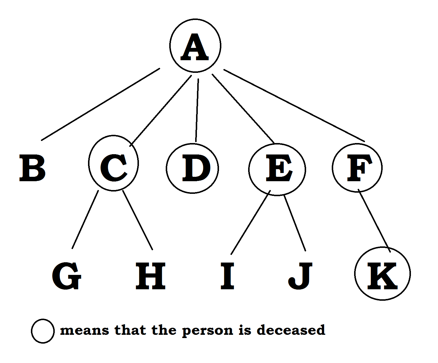 A diagram illustrating examples of legal stirps.